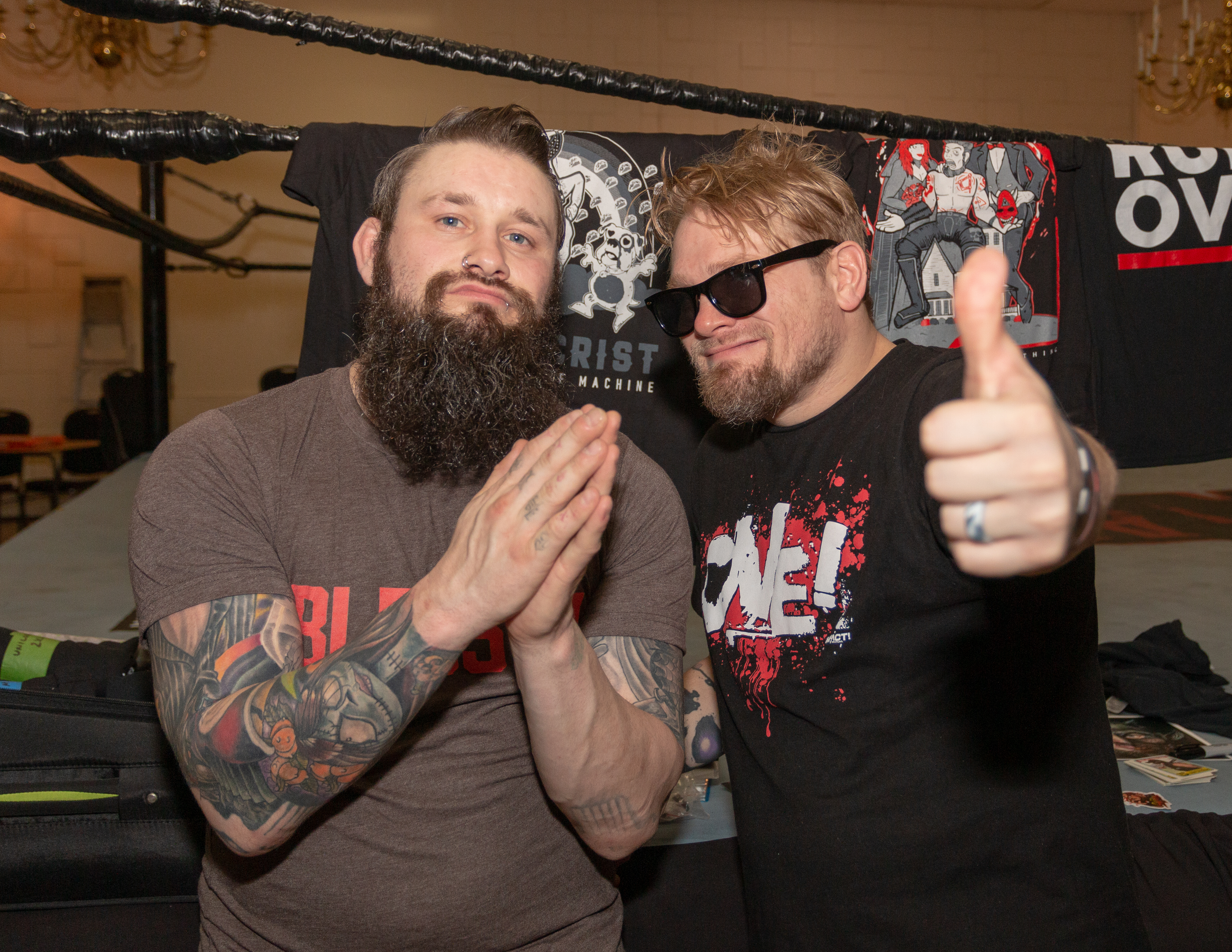 Tag team Ohio Versus Everything - consisting of brothers Dave (left) and Jake Crist (right) - post-show at Alpha-1's "Susper Slam 2019" in Hamilton, ON